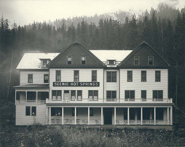 Subjects (LCTGM): Hotels--Washington (State)--Scenic Subjects (LCSH): Scenic Hot Springs Hotel (Scenic, Wash.)